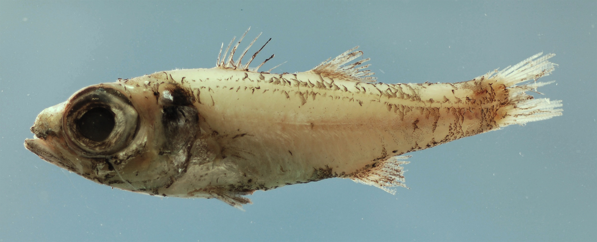 Epigonus robustus from the Gulf of Mexico